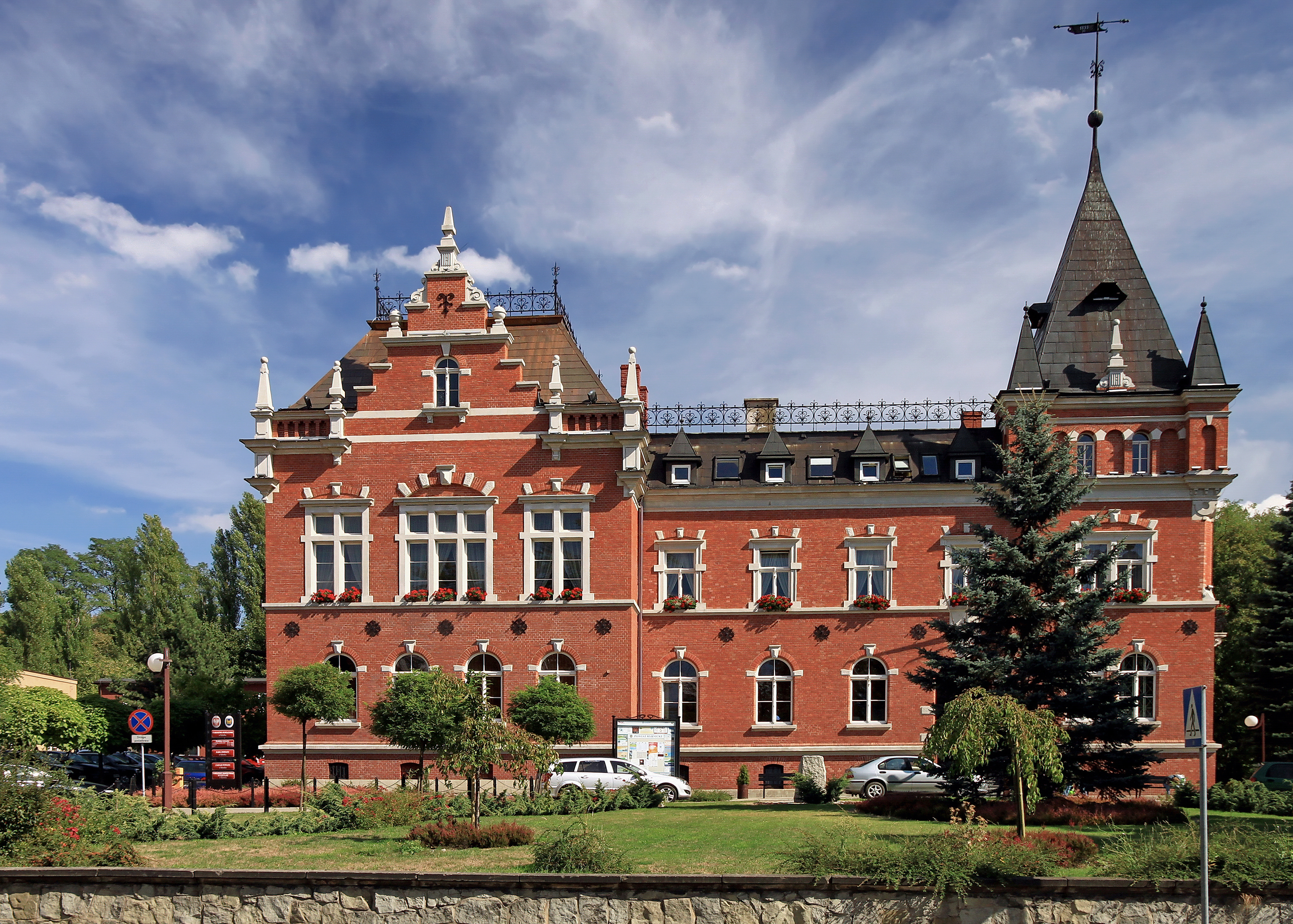 Rybnik, powiat office building, build in 1887